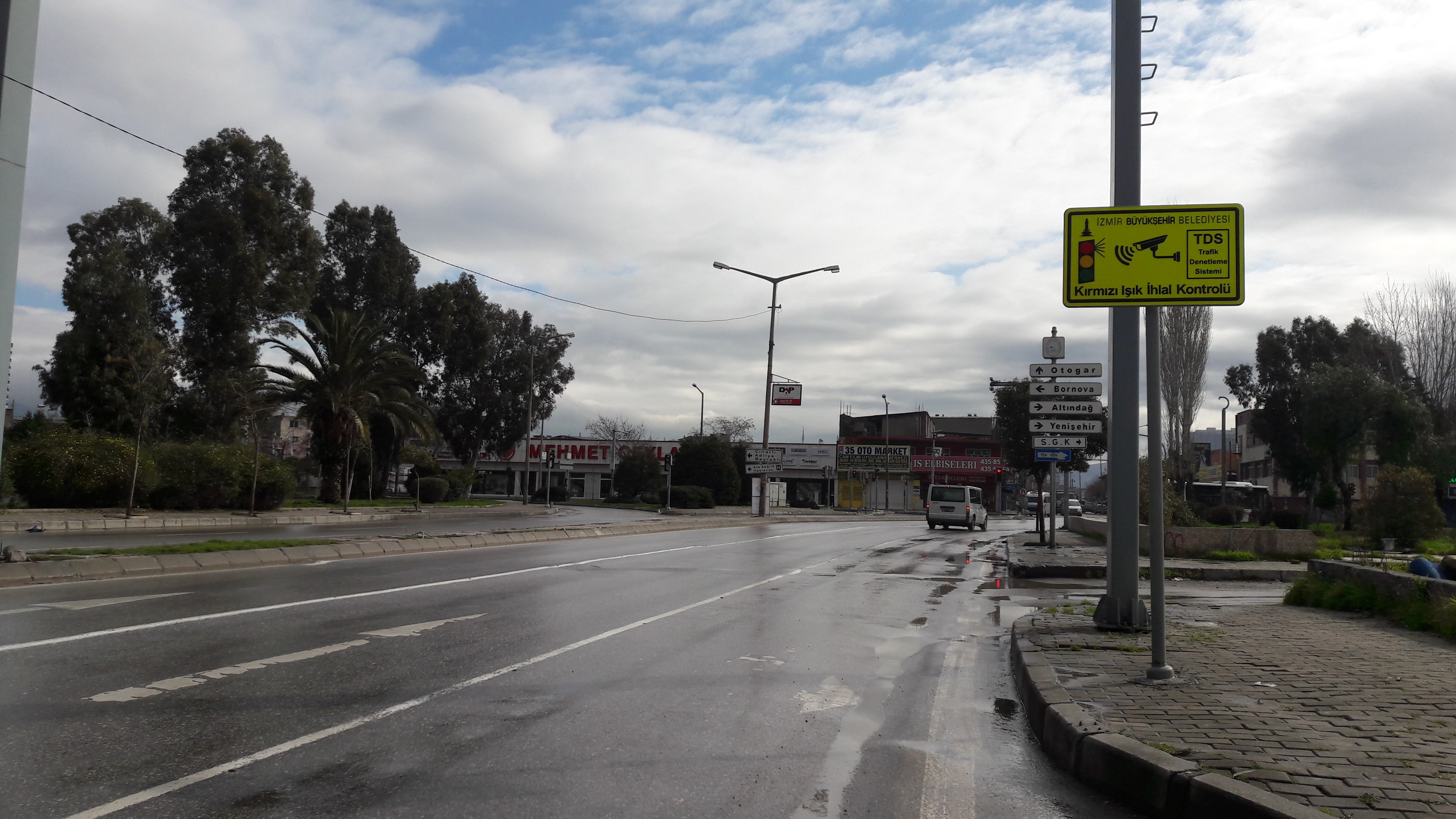 The location of Vakiflar station of the planned Halkapinar-Otogar metro line.